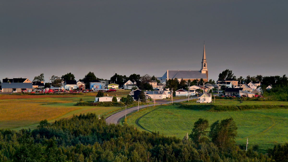 Village of Saint-Clément, Quebec, Canada